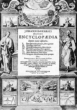 Frontpage of "Encyclopaedia" from Johann Heinrich Alsted (Hebron 1630)